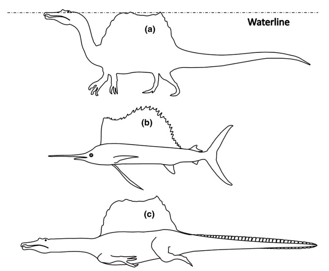 Body shapes of Spinosaurus aegyptiacus and sailfish. Circumferences were drawn in line with the skeleton published in Ibrahim et al. (2014), and averaged from images in the internet. (a) Spinosaurus in resting or stalking posture. (b) Sailfish with sail raised. (c) Spinosaurus swimming submerged. The hind leg is shown in stroke position and the tail is shown extended with hypothetical crocodile-like horny scales, improving the efficiency of the undulating propulsion.